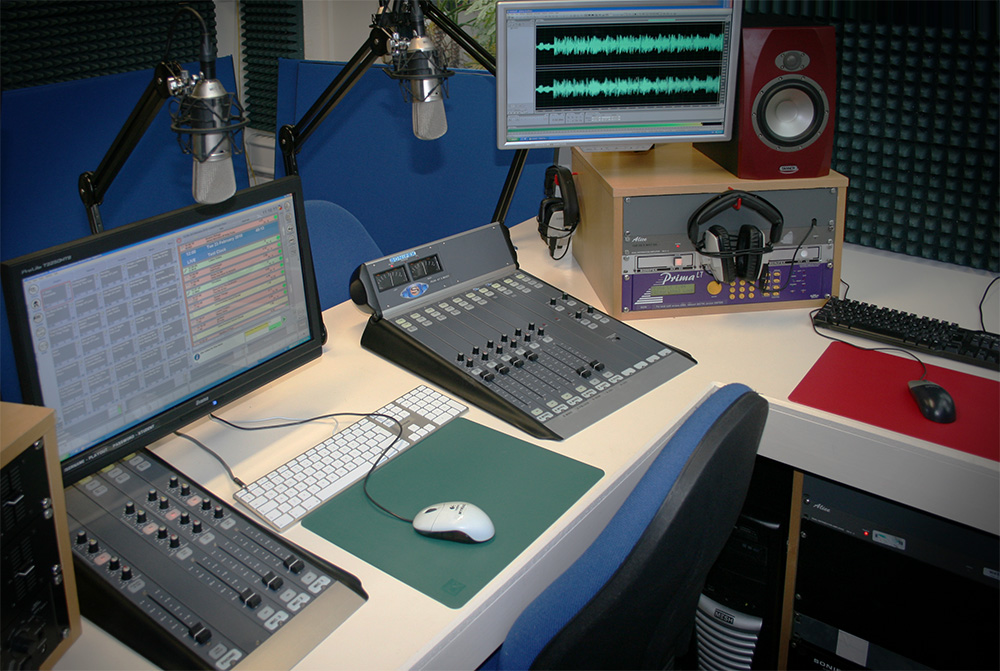 The primary broadcasting studio for Echo, a community radio station in Farnborough, UK.